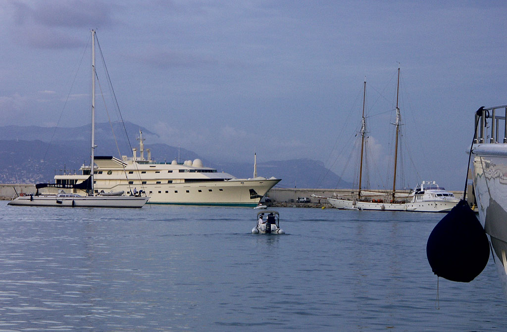 Photograph of the marina at Antibes, France at dusk, showing a wide variety of different craft - from a tiny water taxi to small sailing craft to a massive, private luxury yacht. In the background, the hills behind Nice are visible. Taken on 17 September 2005 by Natonos Aedui using a Minolta A1 digital camera. Color corrected and resized in Adobe Photoshop CS2.